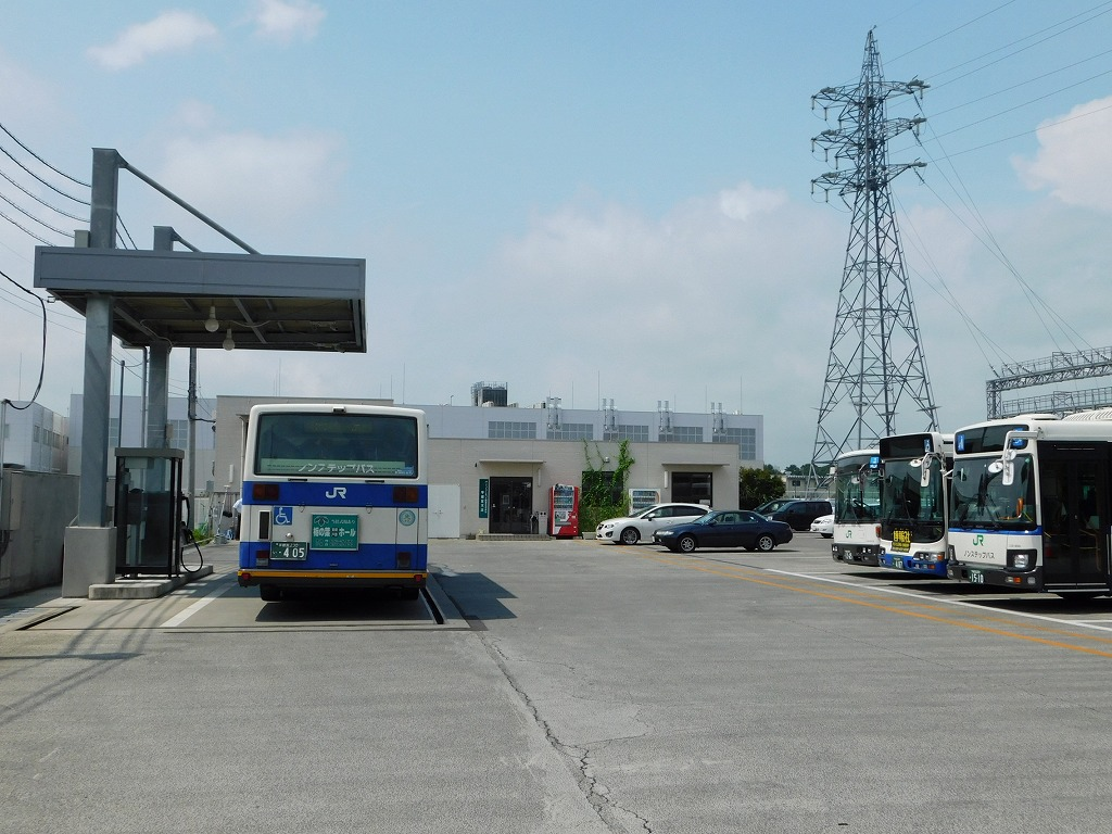 JR bus Kanto Utsunomiya branch